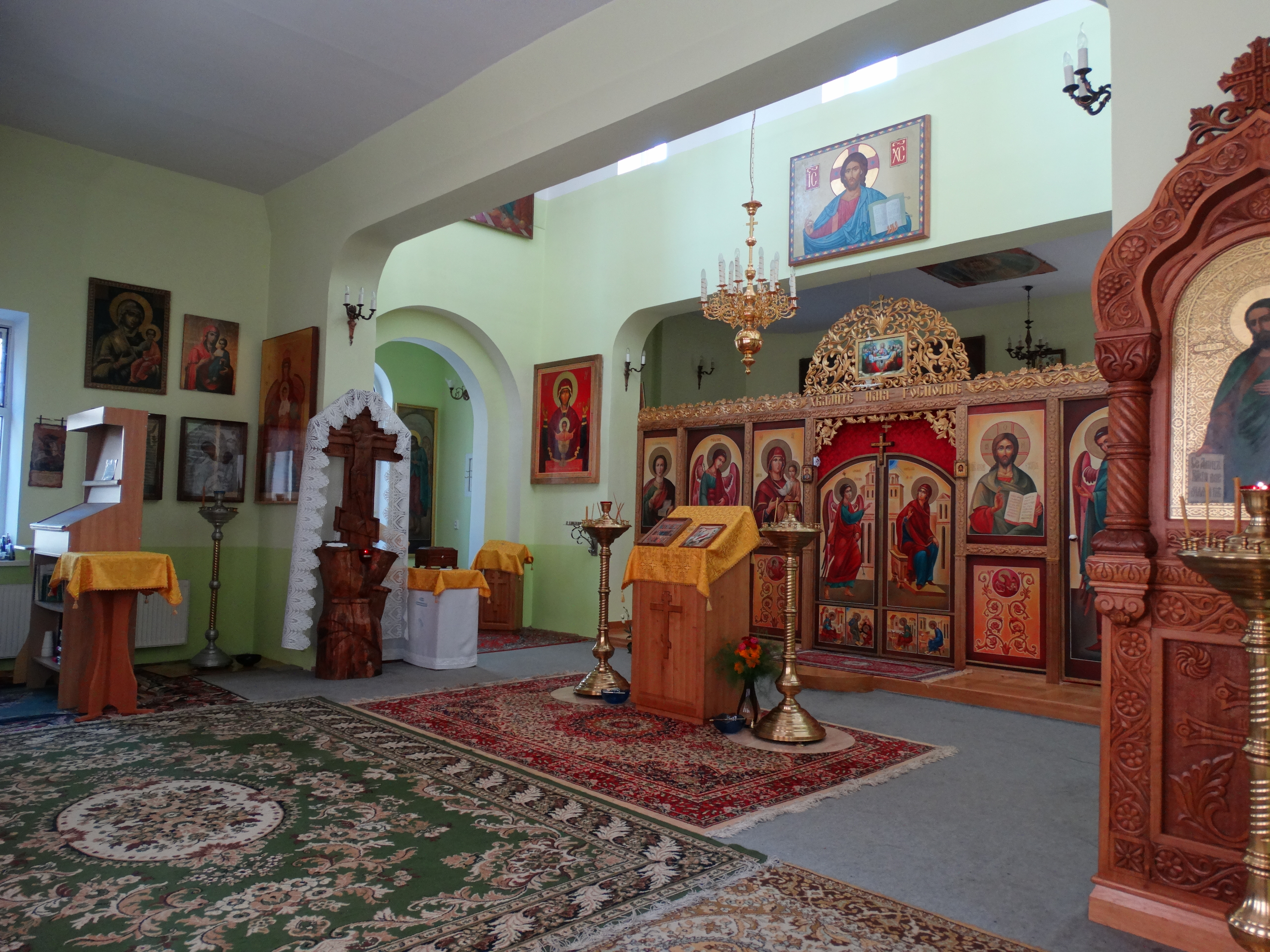 Interior, Orthodox Church of St. John the Baptist, Visaginas, Lithuania